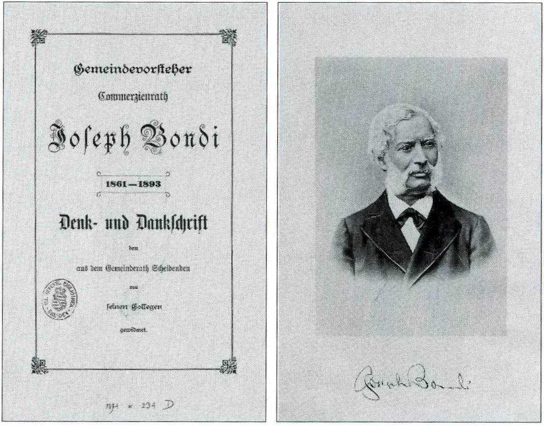 Dankschrift an Joseph Bondi 1861-1893 Gemeindevorsteher israelit. Gemeinde Dresden Variante